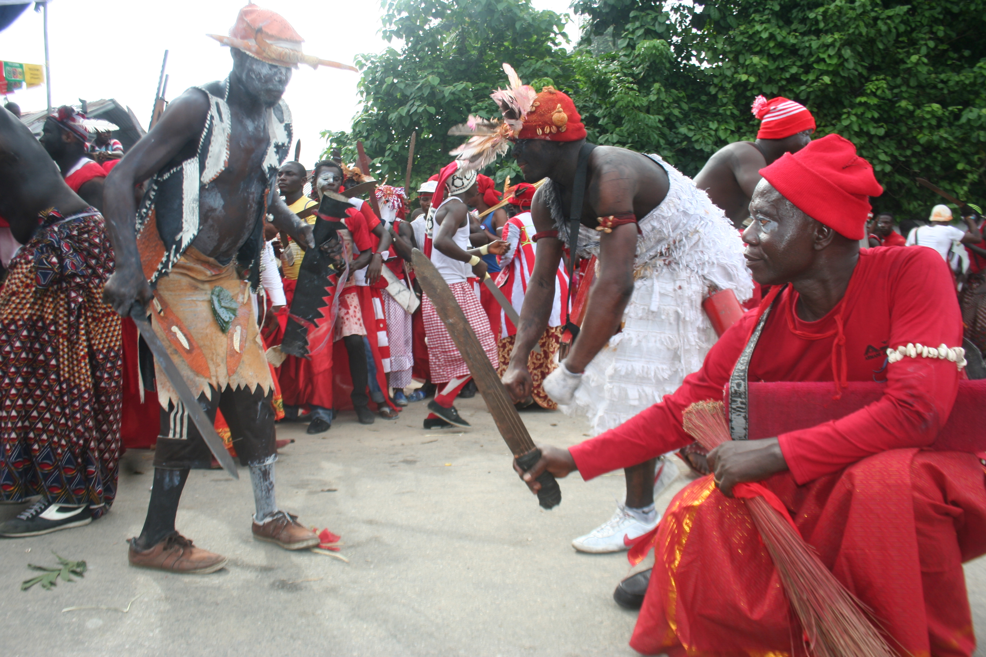 Victory dance of Urhobo people